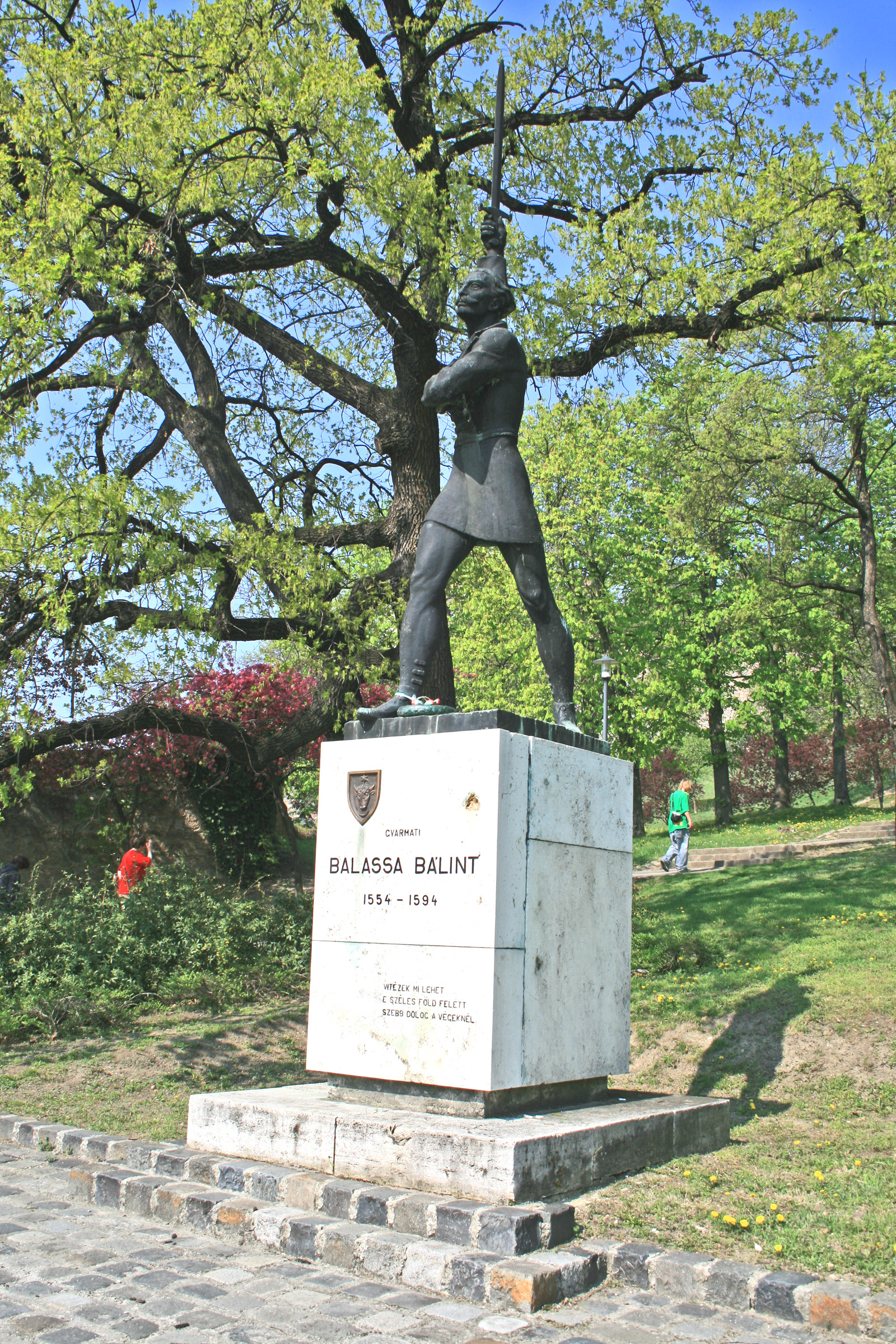 Statue of Bálint Balassi in park under Esztergom castle, Esztergom, Hungary